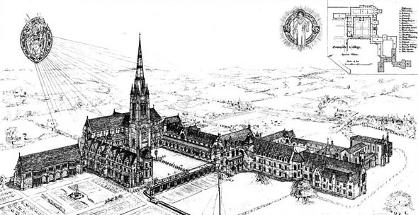 Perspective view of Downside Abbey published in The Building News, May 30th 1873.